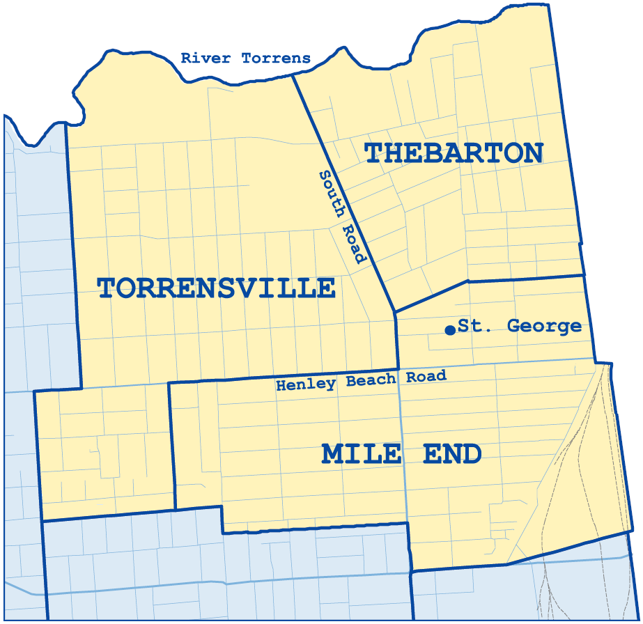 The location of St George Greek Orthodox Church in Adelaide, at the centre of the most dense Greek-Australian suburbs in Australia of Thebarton, Torrensville and Mile End. These areas are at the North-East Corner of The city of West Torrens, shown in an orange shade, while the connecting West Torrens Suburbs are in a blue shade.